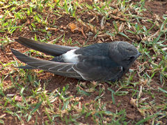 White-rumbed swift (Apus caffer)